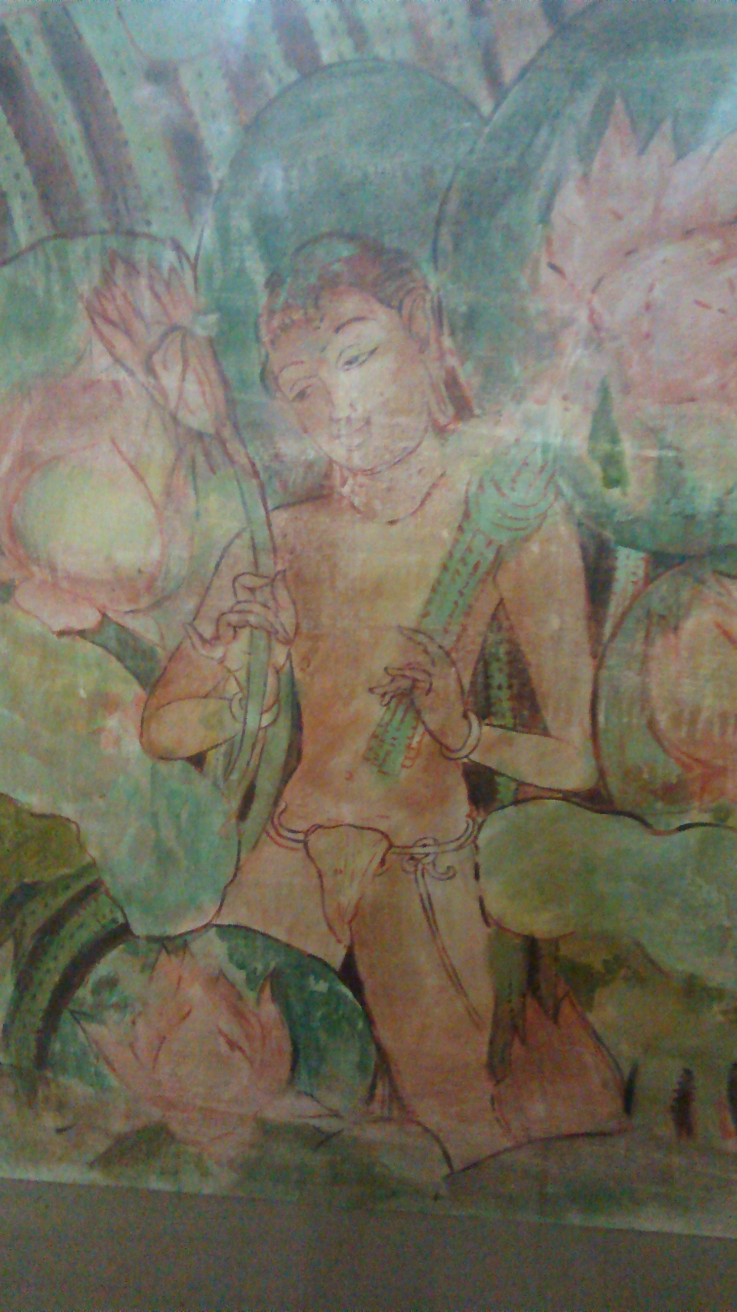 Sithanavaasal Paintings in Thirumal Naicker Mahal Museum, Madurai, Tamil Nadu